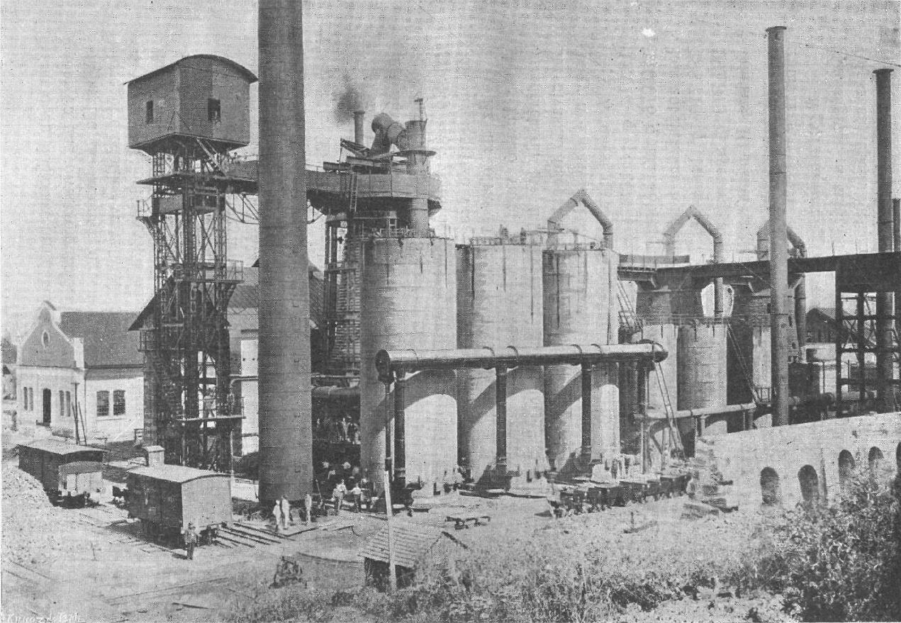 Hunedoara (Vajdahunyad) steel plant in 1896